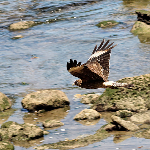 Chile 2006, Dichato near Concepcion